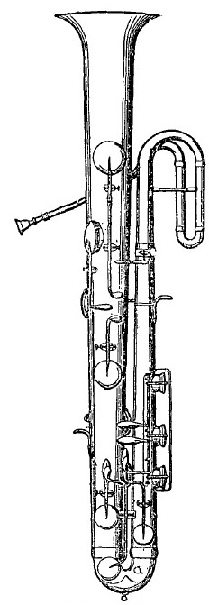 Drawing of ophicleide